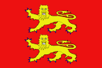 Flag of Normandy